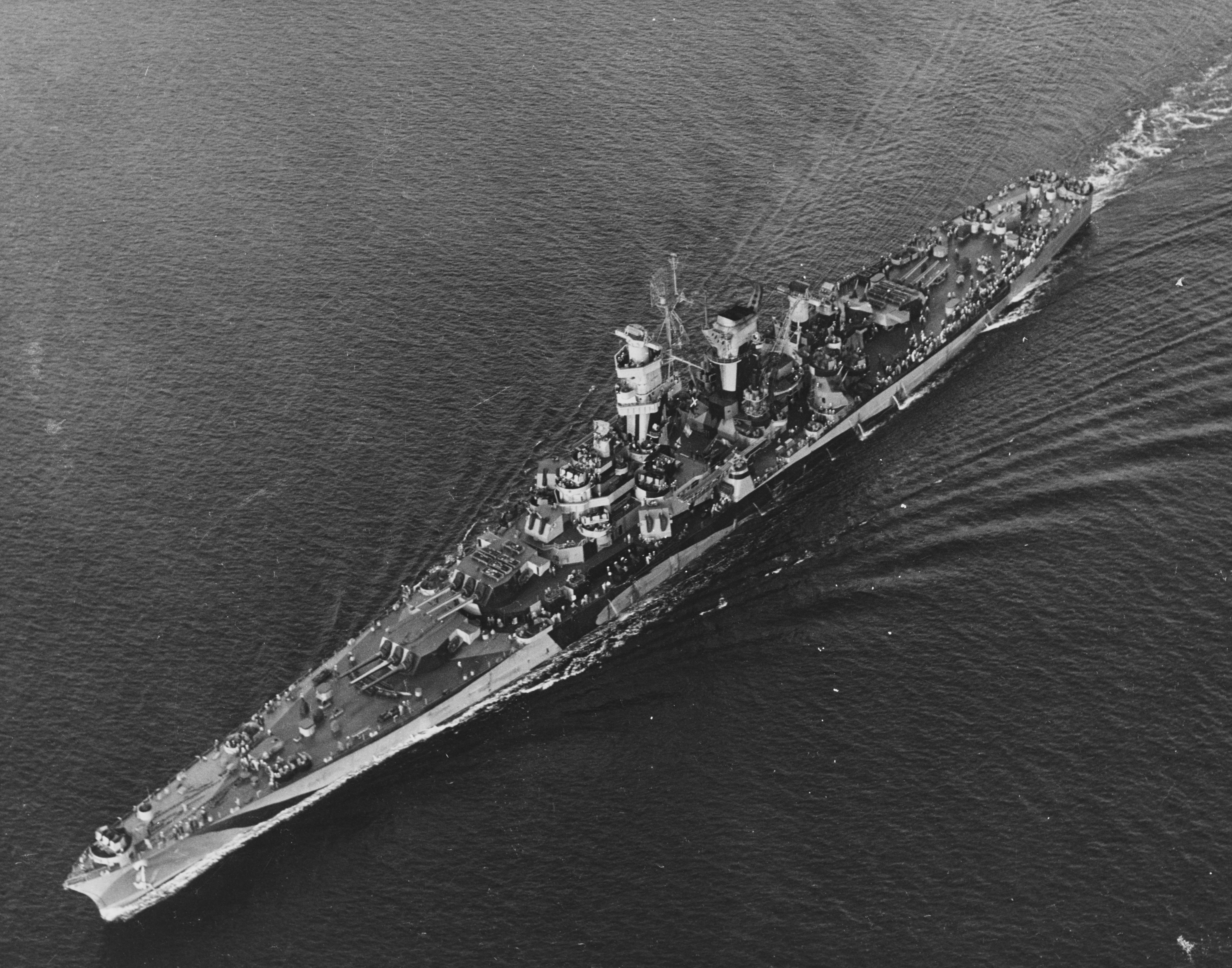 The U.S. Navy large cruiser USS Guam (CB-2) underway during her shakedown cruise off Trinidad, 13 November 1944.